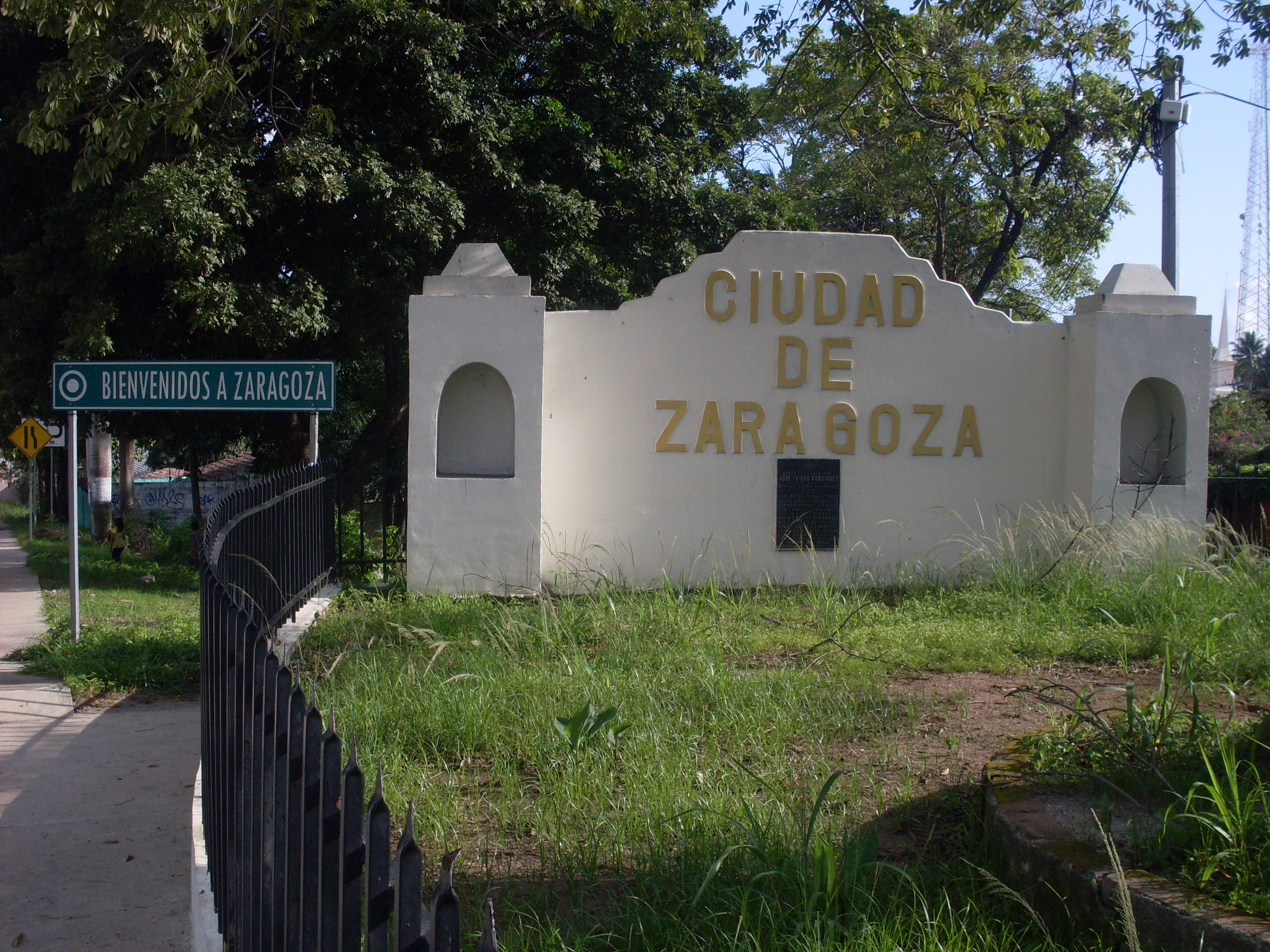 This is the Welcome to Zaragoza in the main entrance